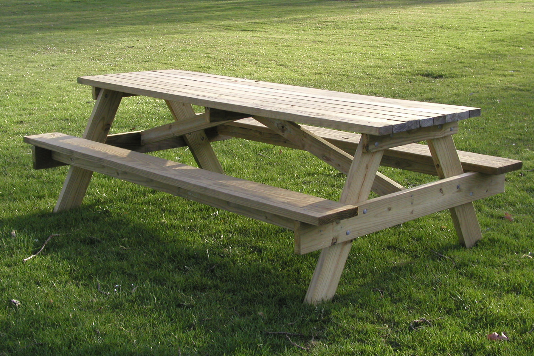 A picnic table. This one was built as part of bdesham's Eagle Scout project, and stands in the Village Park in Geneseo, New York.